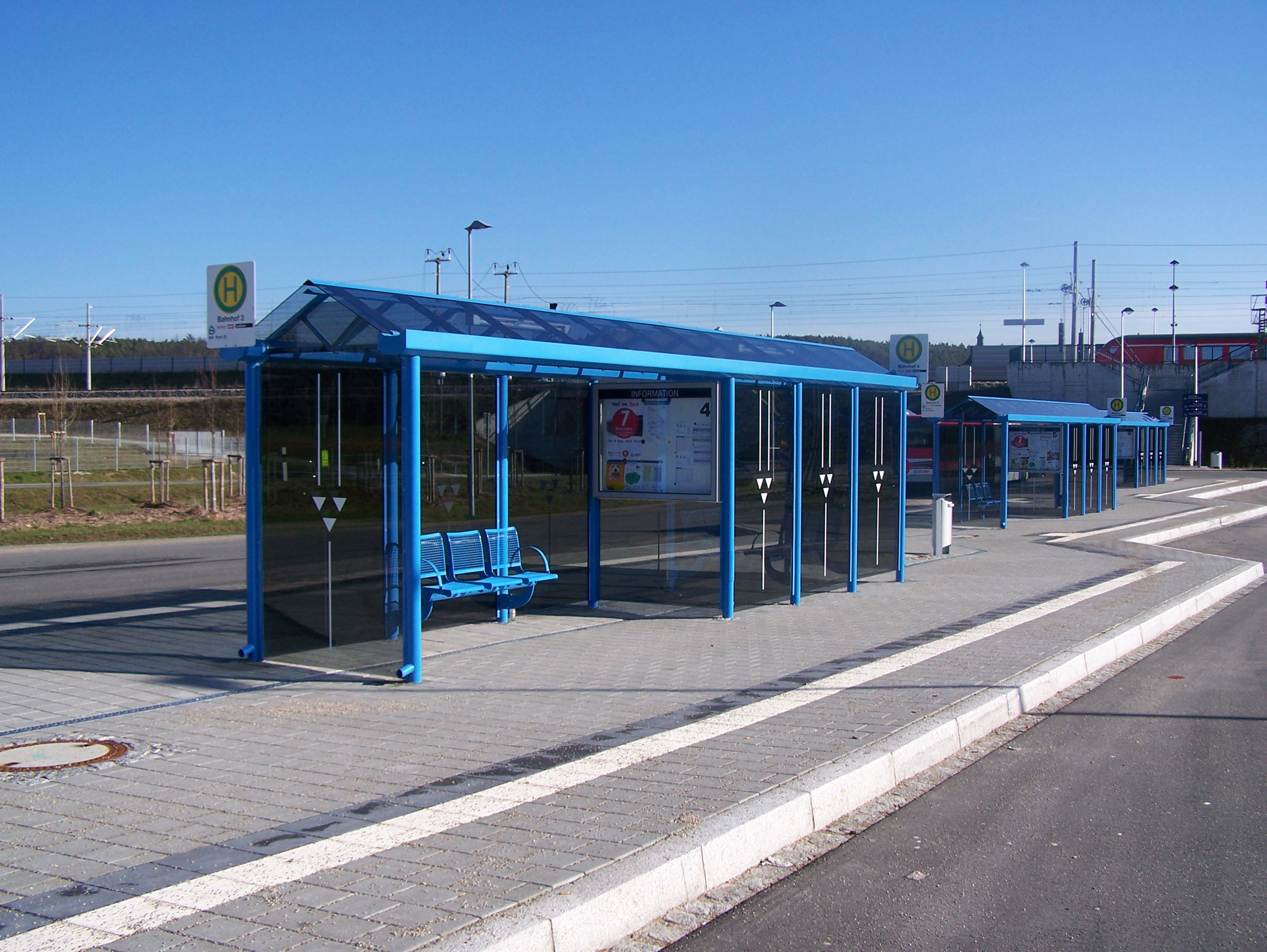 Bus stop at Allersberg (Rothsee) railway station, Allersberg, Germany.